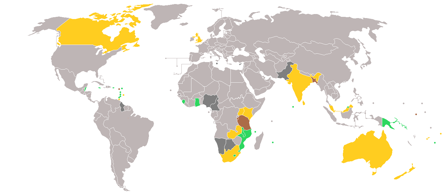 Gold for countries achieving at least one gold medal.Silver for countries achieving at least one silver medal.Bronze for countries achieving at least one bronze medal.Green for countries that did not get any medal.Gray for countries that are not part of the Commonwealth Games Federation.